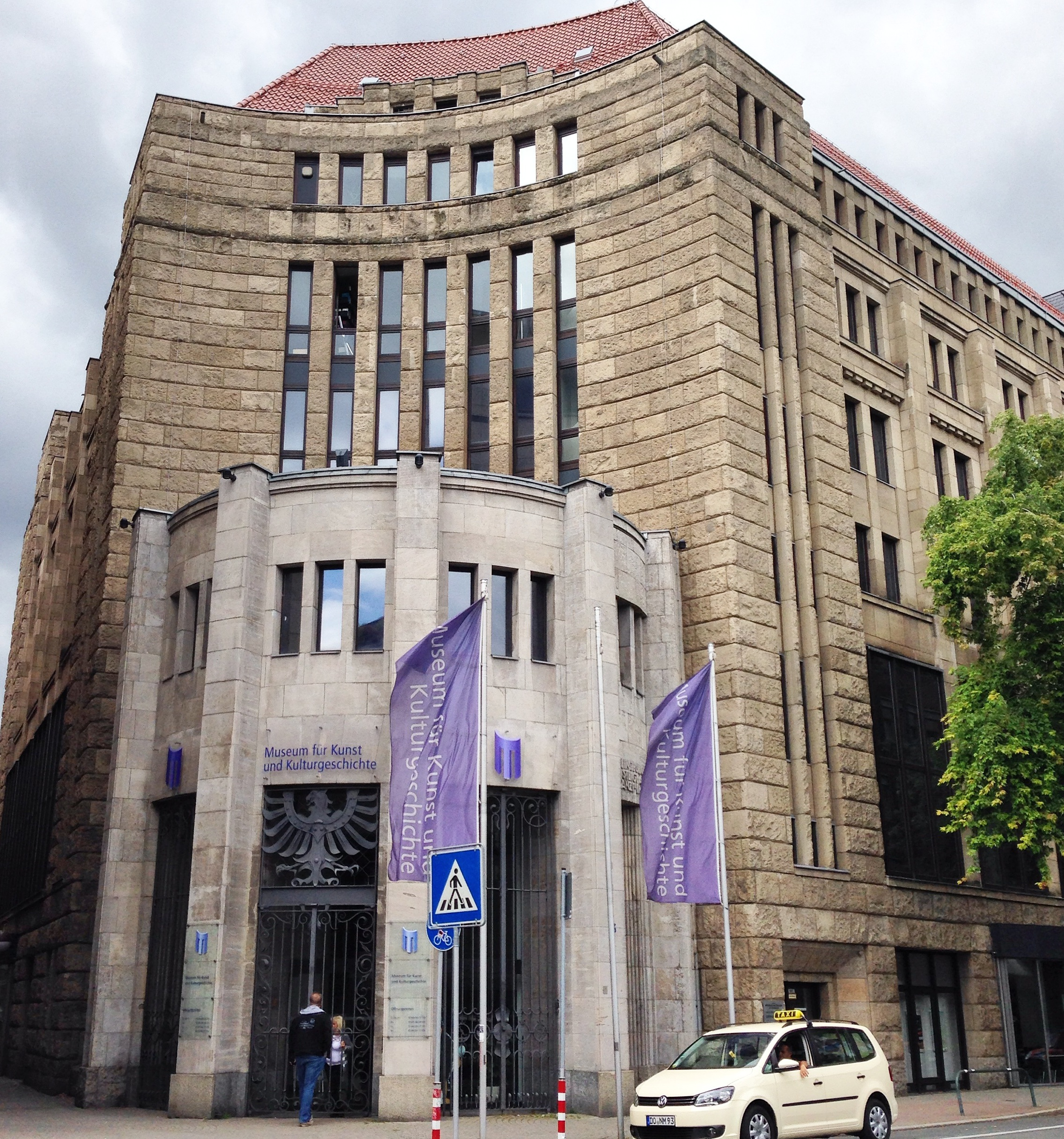 Art deco building in Dortmund, Germany This is a photograph of an architectural monument.